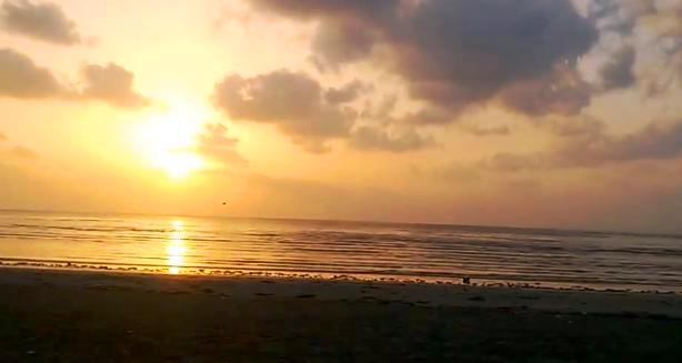 A view of Siesta Beach